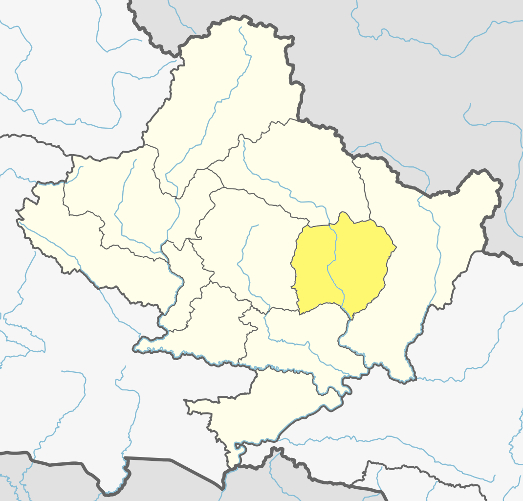 Lamjung District